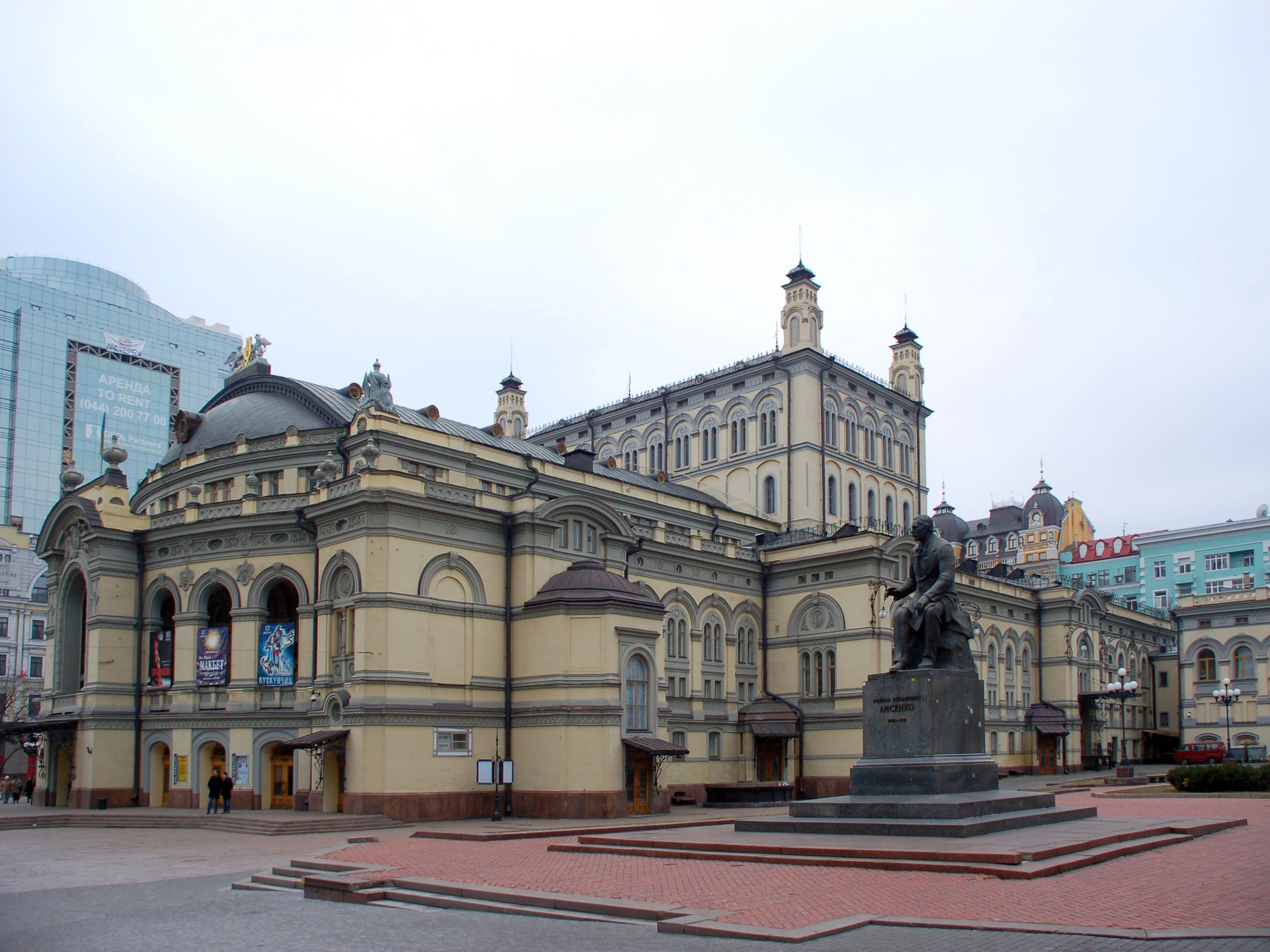 Overview of the Natioal Opera House Taras Shevchenko in Kiev with a monument to Lisenko to the right